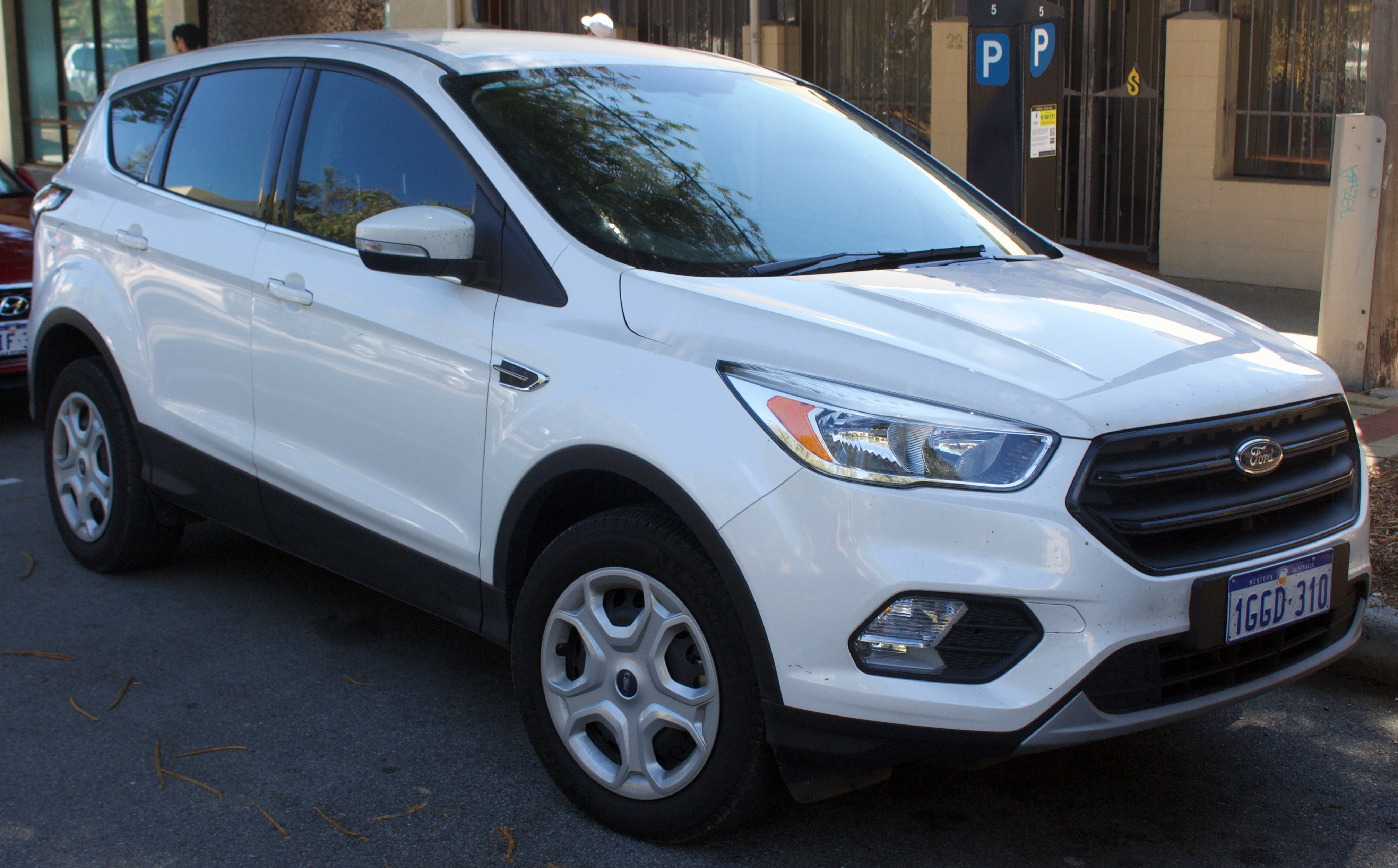 2017 Ford Escape (ZG) Ambiente wagon. Photographed in Fremantle, Western Australia, Australia.